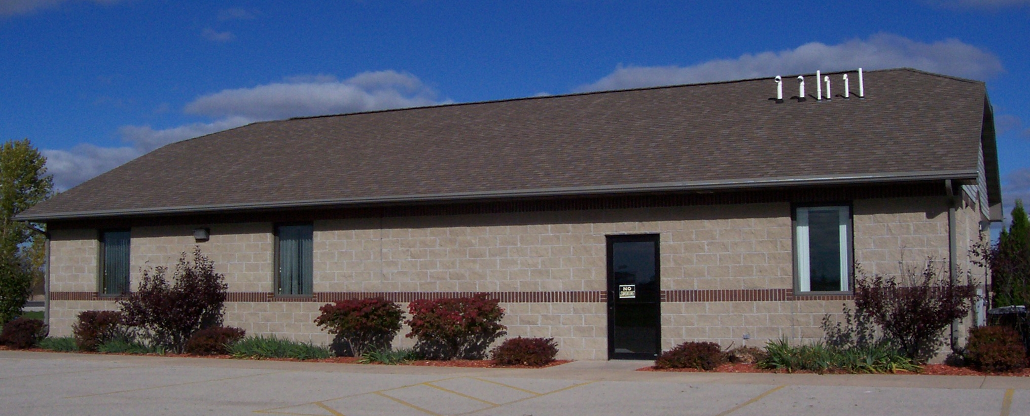 The town hall for the Rockland, Brown County, Wisconsin in Brown County, Wisconsin, USA. Cropped from the original.